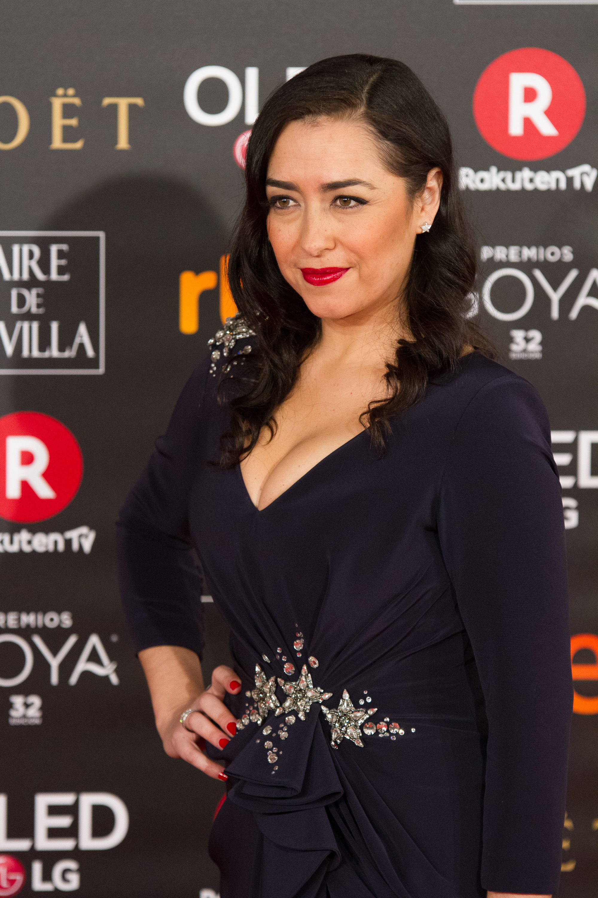 32nd Goya Awards, 2018.